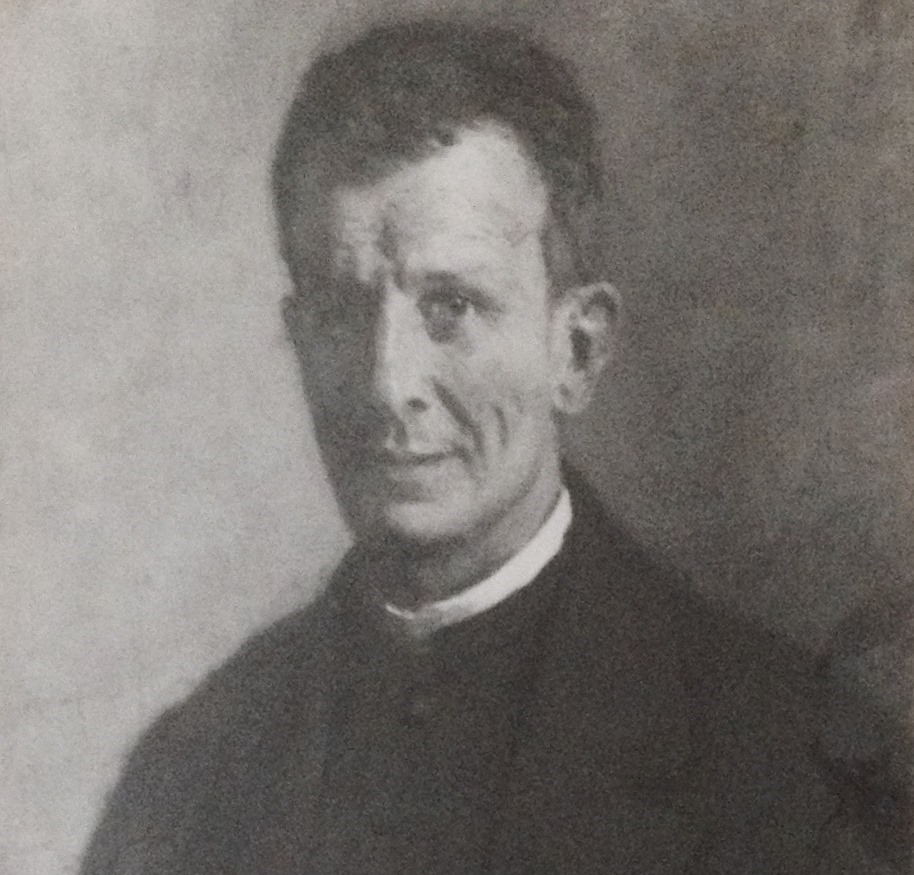 Rinaldo Nascimbene portrait